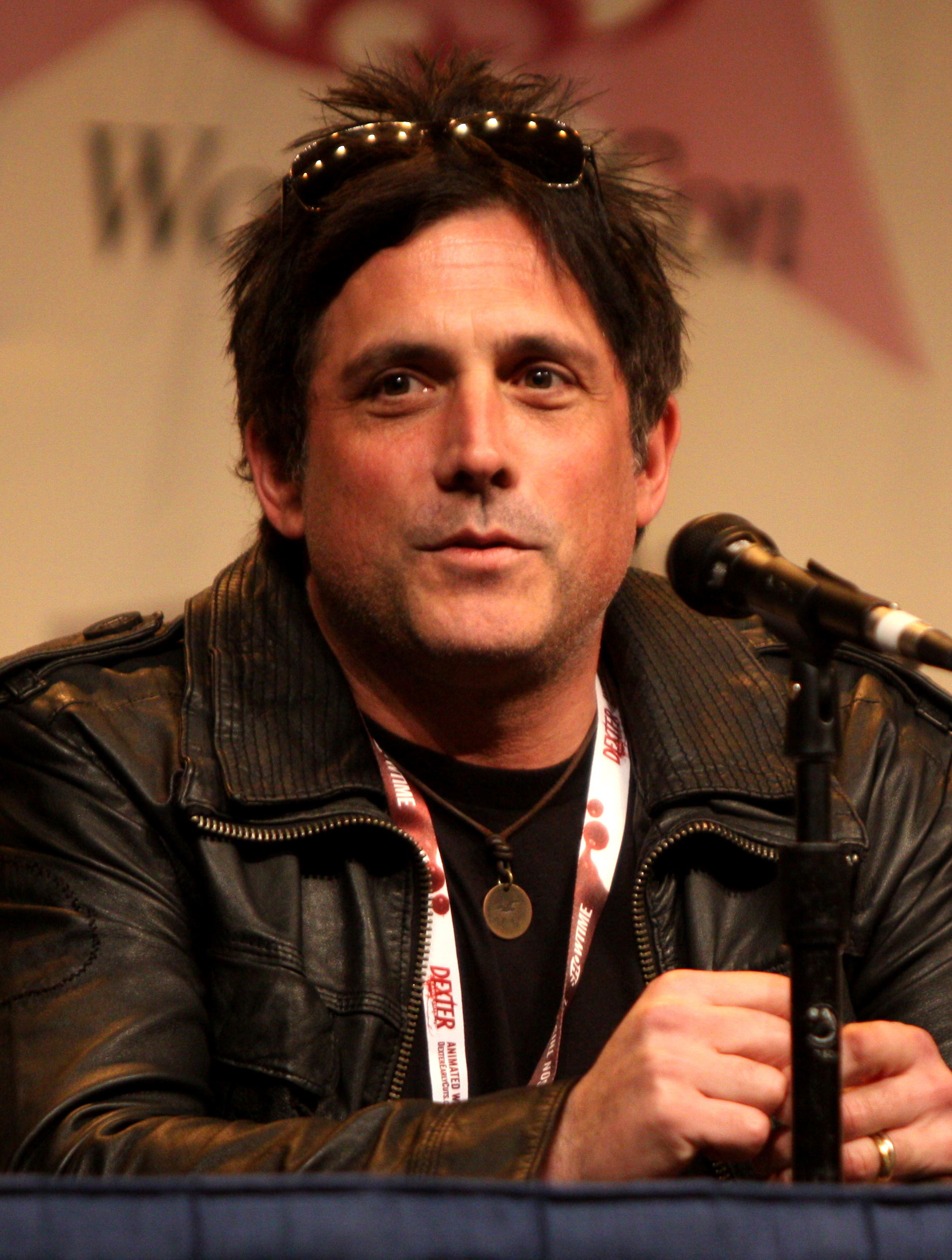 J. H. Wyman speaking at Wondercon 2012 in Anaheim, California on March 18, 2012.